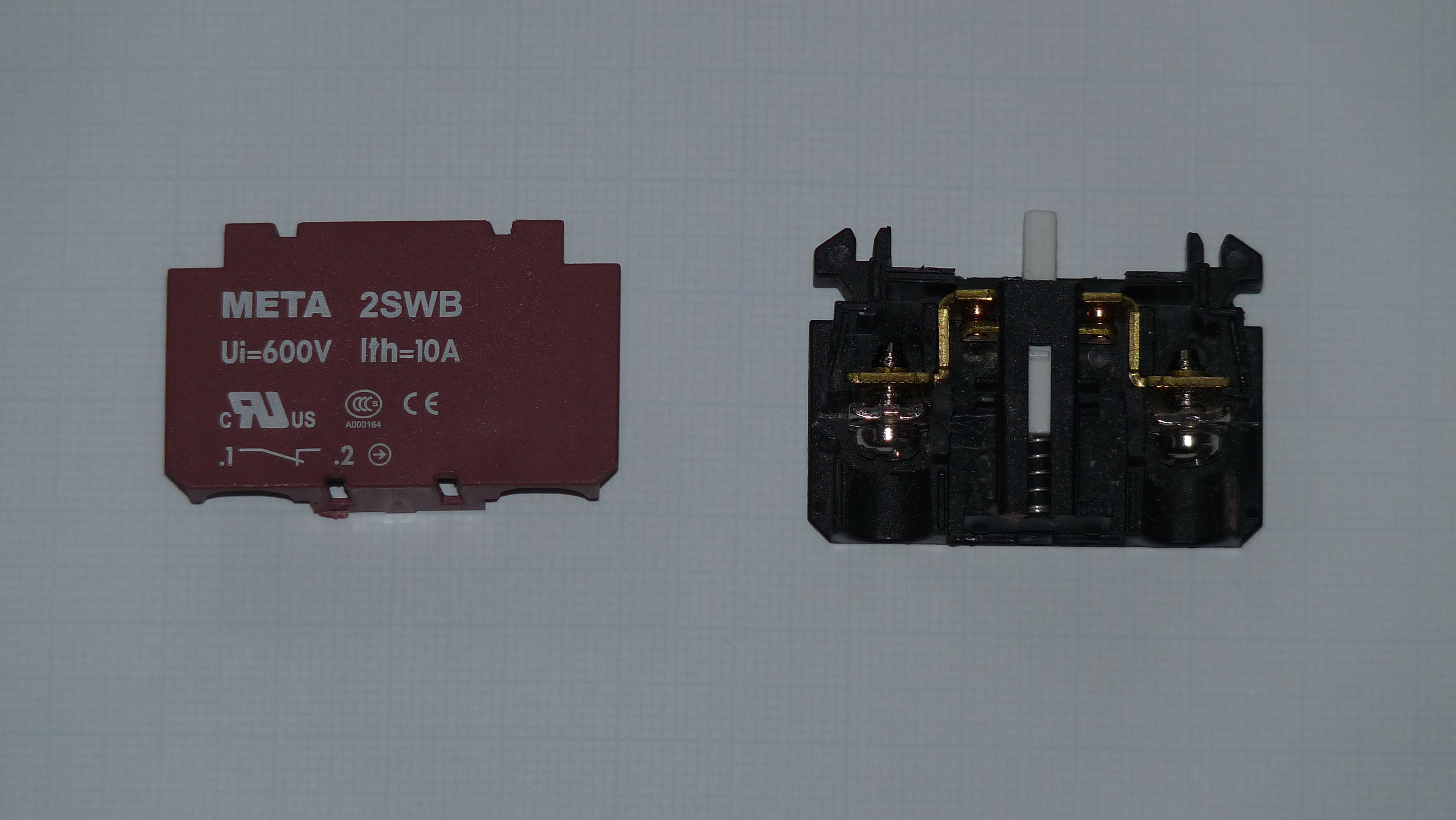 NC switch